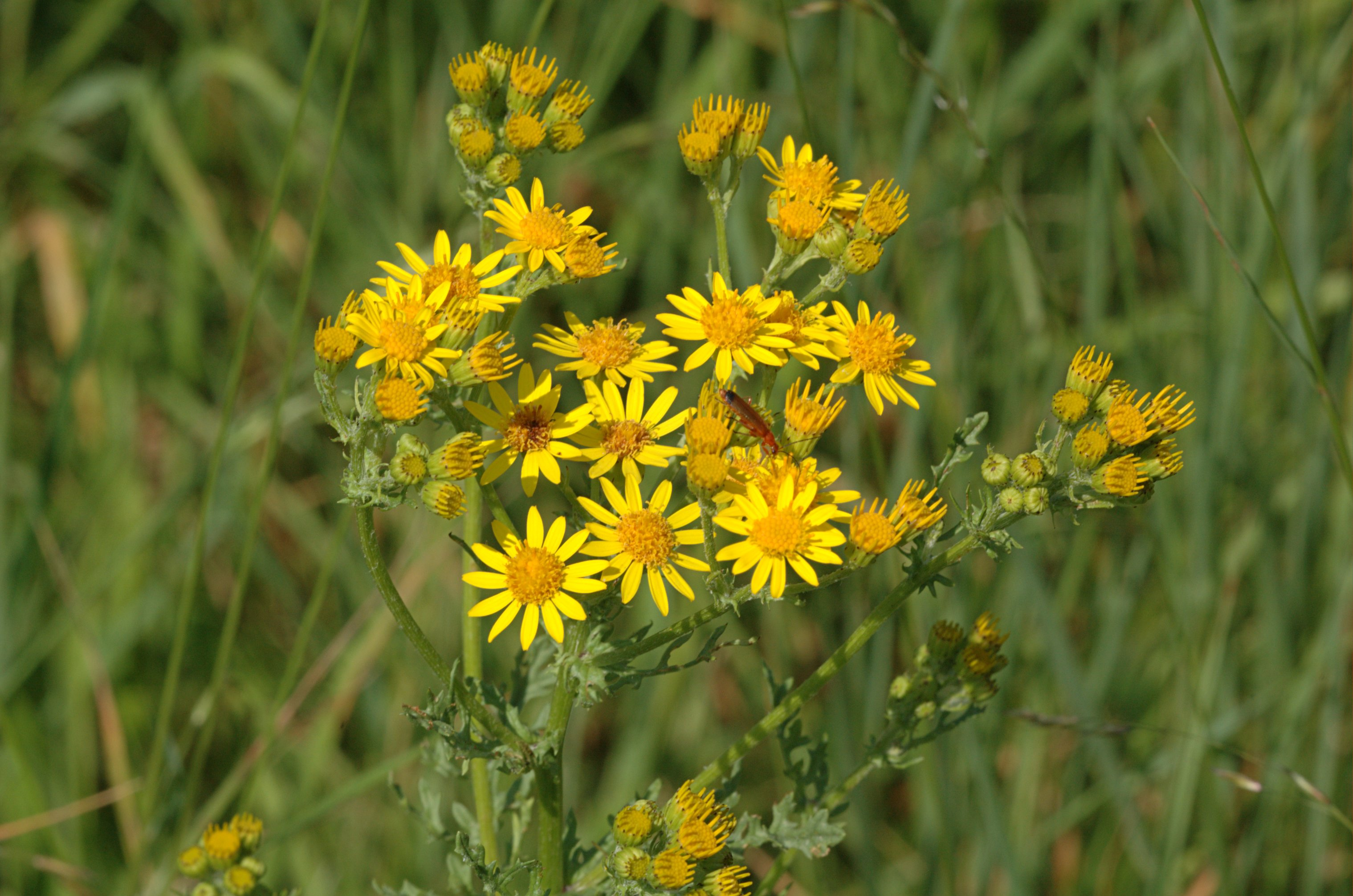 Probably Common ragwort, Senecio jacobaea, flowers. Verulamium Park, St Albans, Hertfordshire, England.